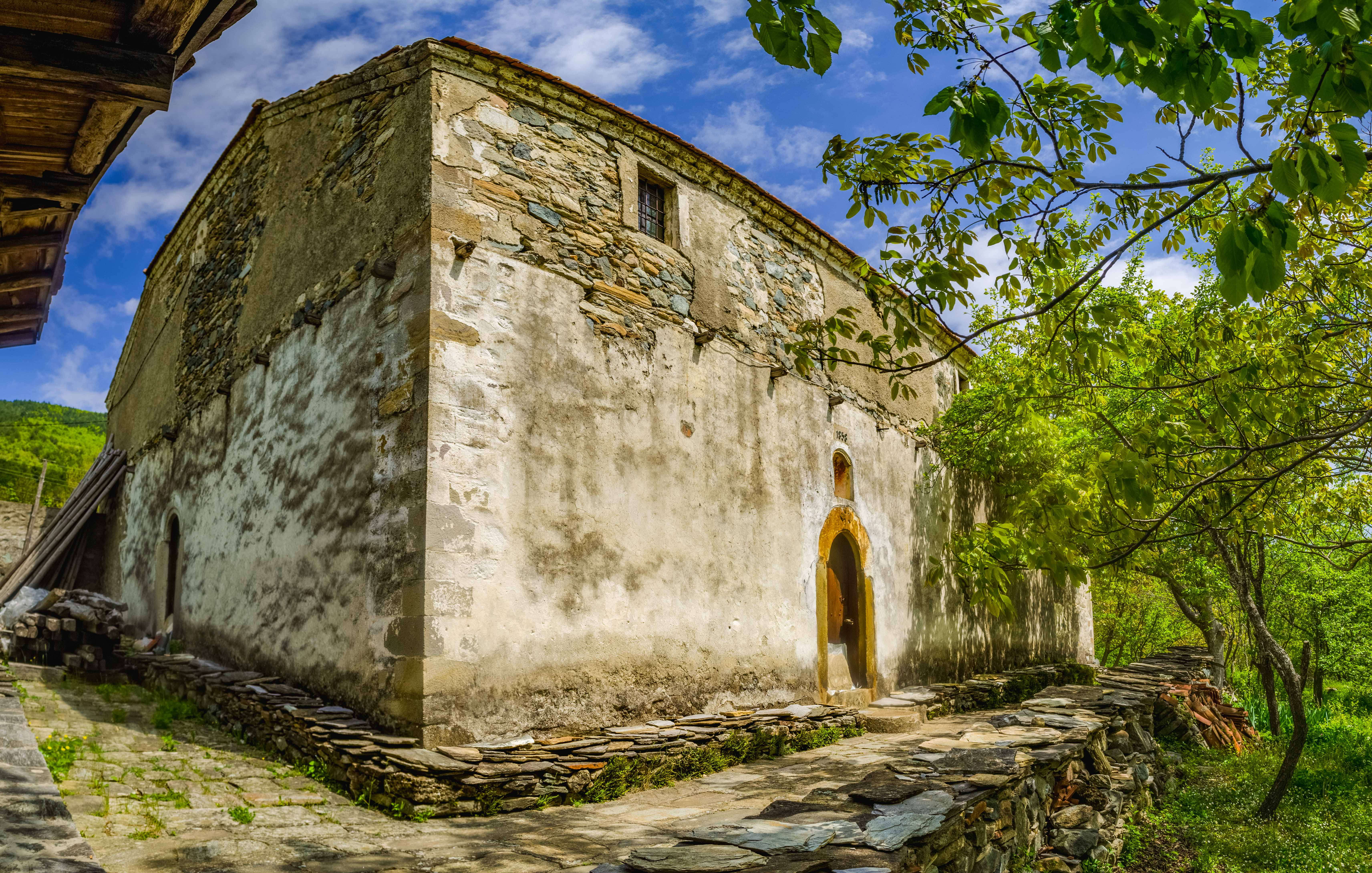 St. Demetrius Church in the village Konsko